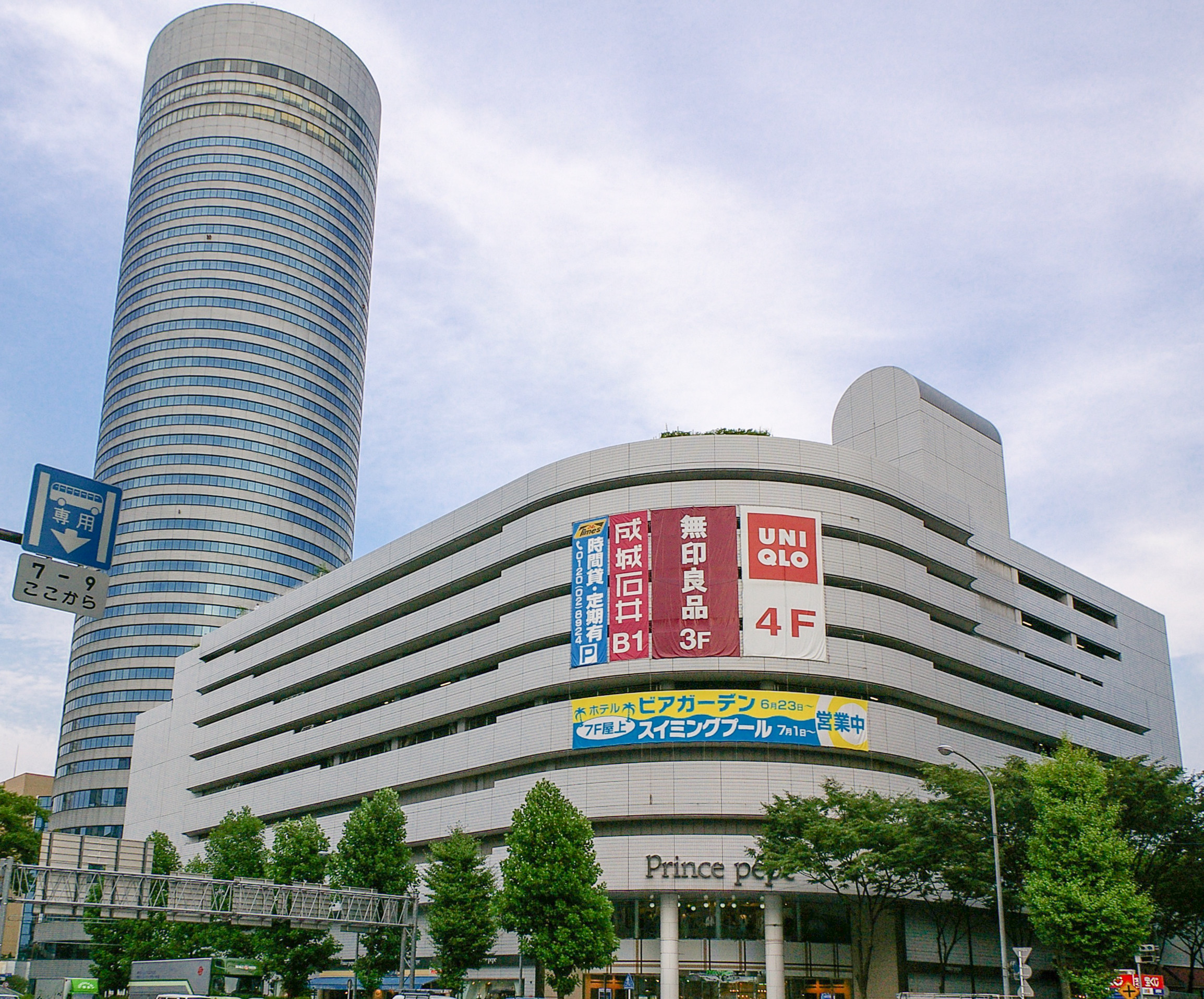 Photograph of the northwest view of Shin Yokohama Prince Hotel and Shin Yokohama Prince pepe in Kohoku-ku, Yokohama, Kanagawa Prefecture, Japan.